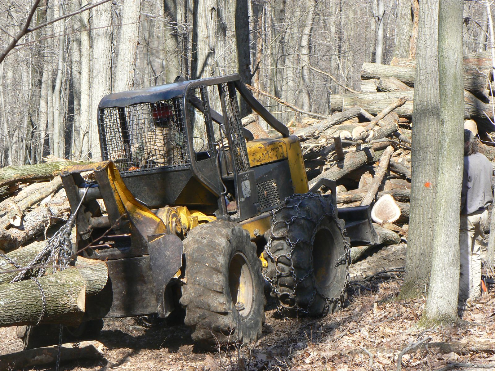 A skidder at work somewhere in Pennsylvania, USA